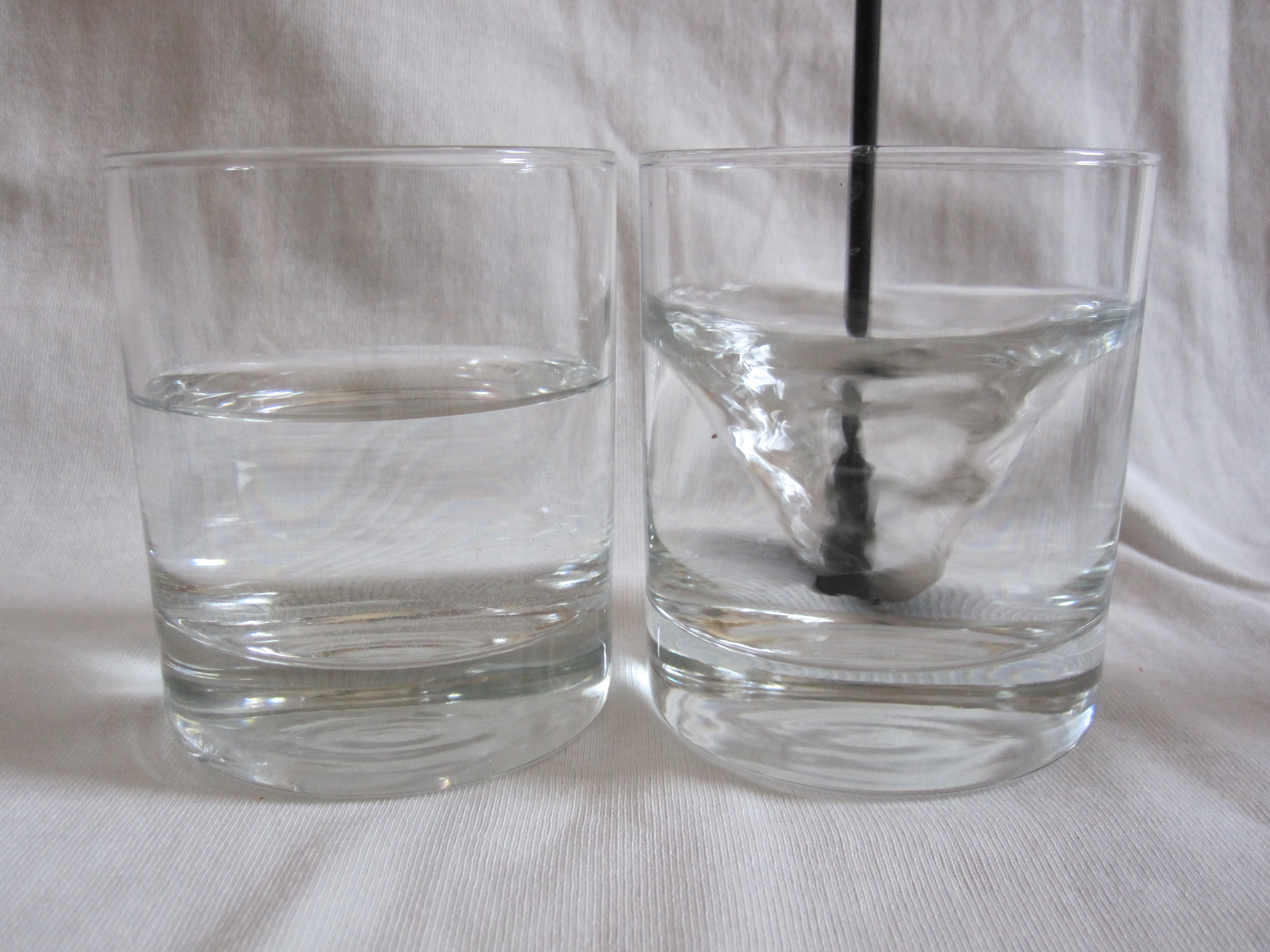 Both glasses are identical and contain the same amount of water. In right glass a stirrer put the water in rotation. The water level raises at the edges by the centrifugal force and falls in the middle.